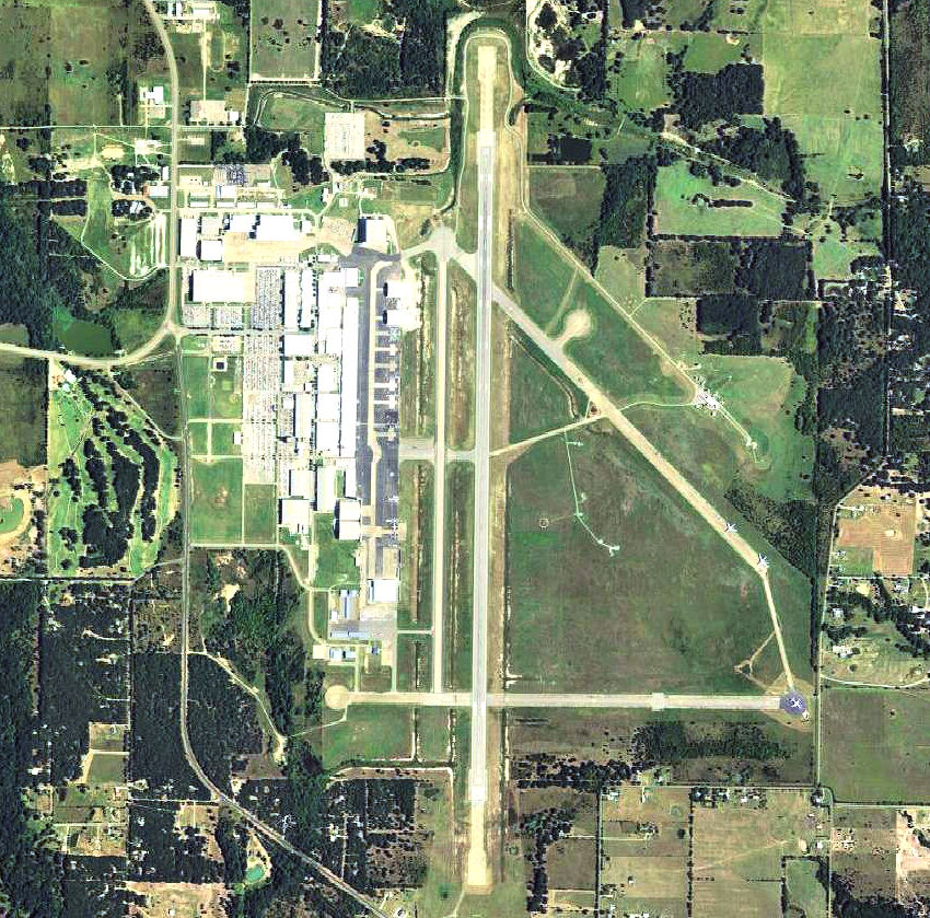 USGS orthophoto of Majors Airport in Texas, United States